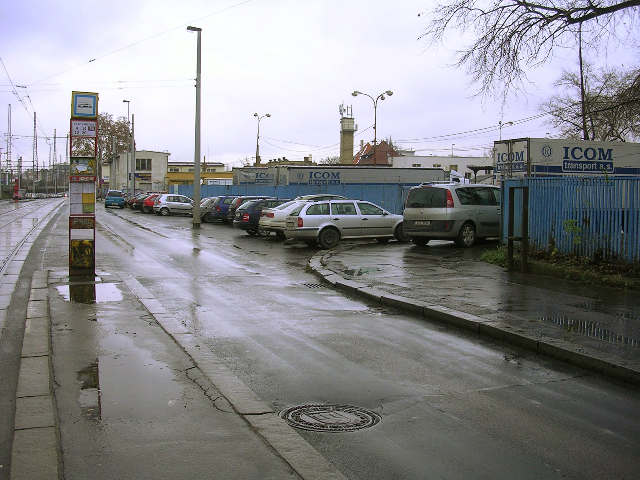 Prague, Smíchov, the Czech Republic. Nádražní Street. Former bus station.